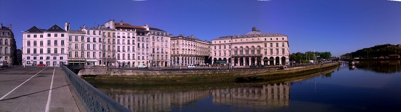 Panorama of Bayonne City Hall